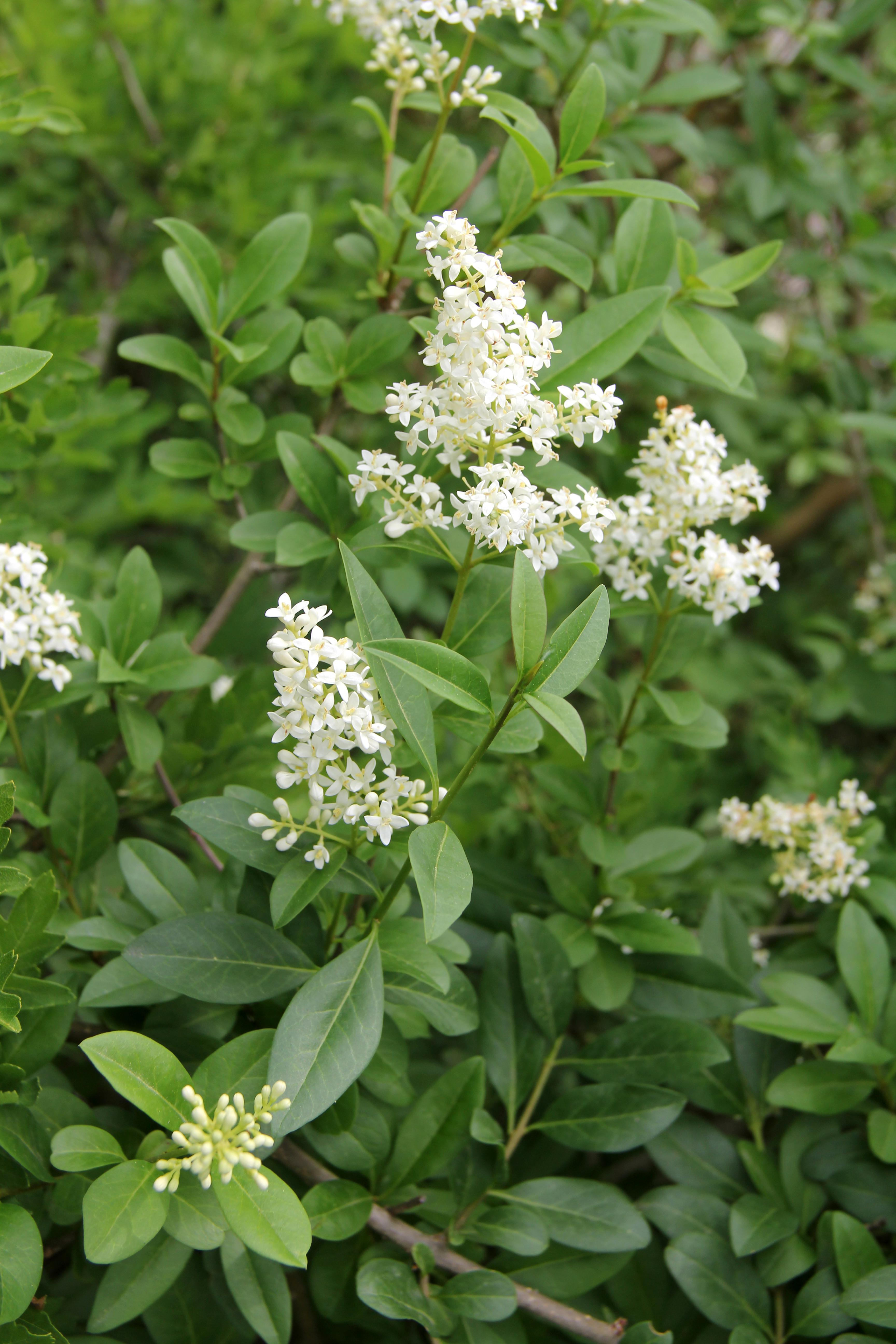 Taken in Racha, Bari